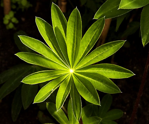 Lupin 'My Castle' leaf. Shot with a Nikon D2H and a Sunpack DX R12 Ring Flash